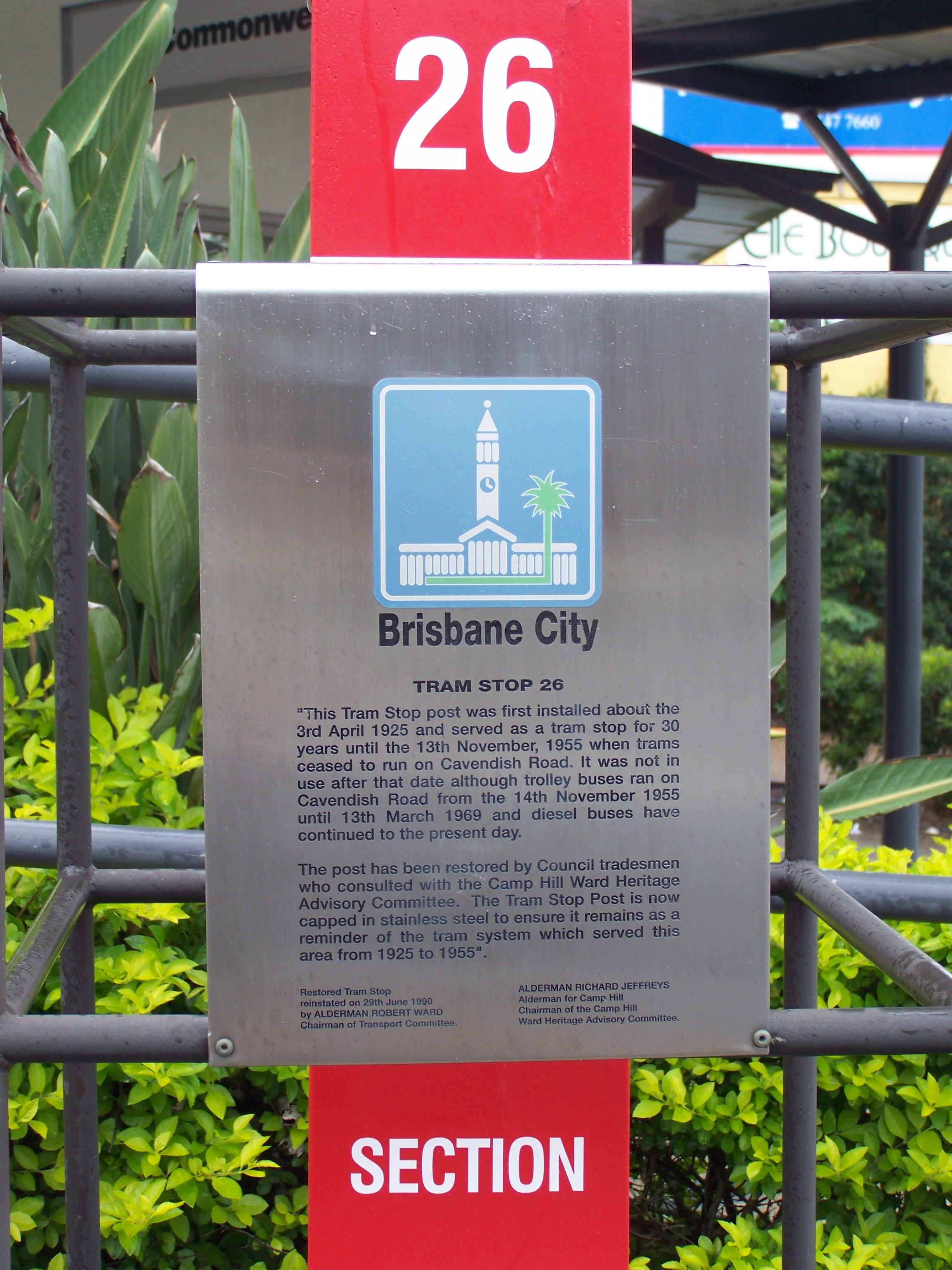 Detail of plaque on restored tram stop at the corner of Old Cleveland Road and Cavendish Road, Coorparoo, Queensland.